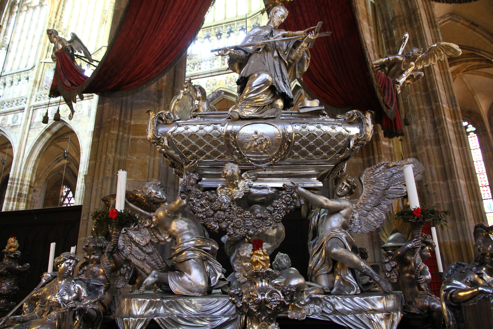 Tomb of John of Nepomuk in St Vitus Cathedral